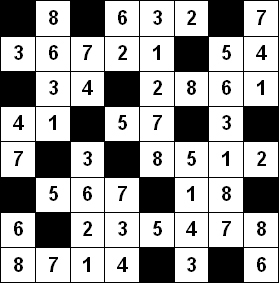 Example of a completed Hitori puzzle.